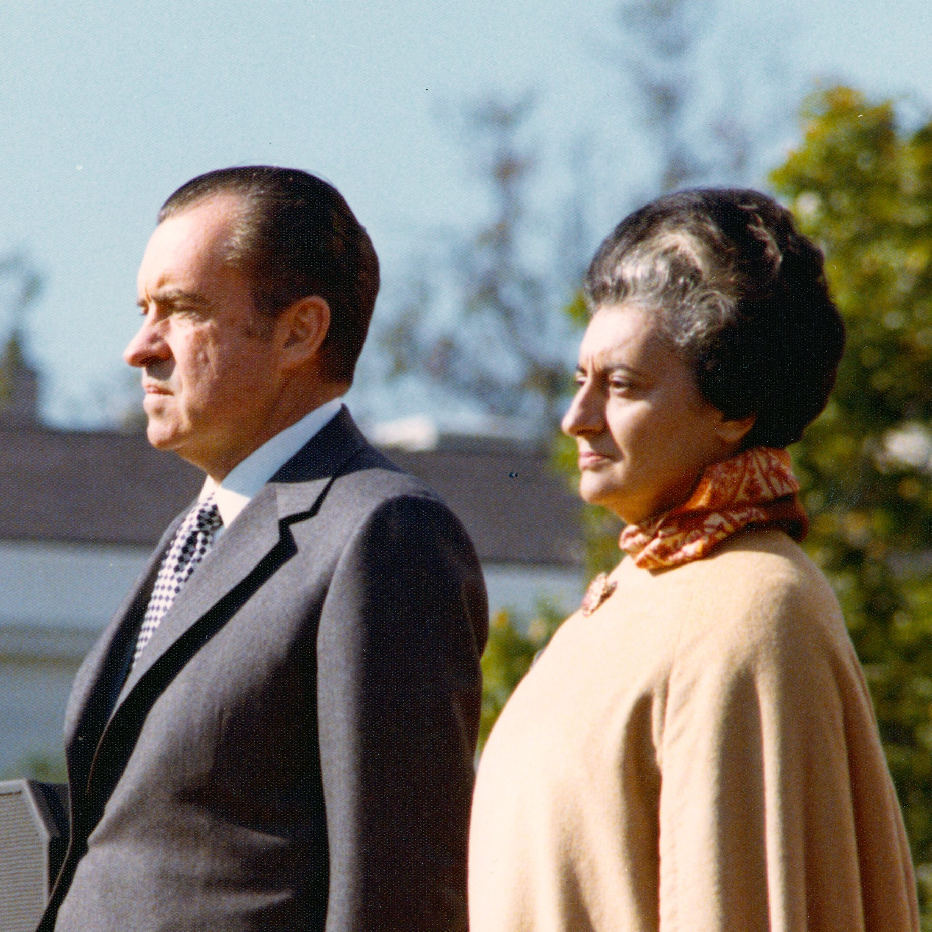 Scope and content: Pictured: Prime Minister Gandhi, President Nixon. Subject: Head of State - India.